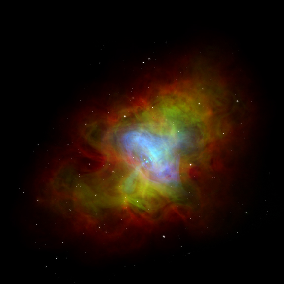 Crab Nebula in x-ray, radio, and infrared wavelengths.